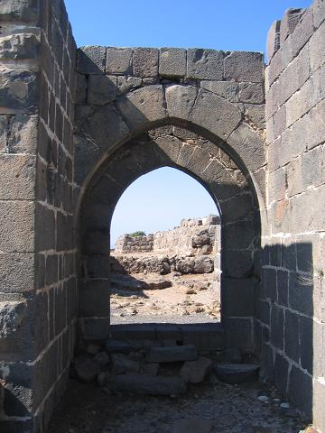 Belvoir inner gate from outside.